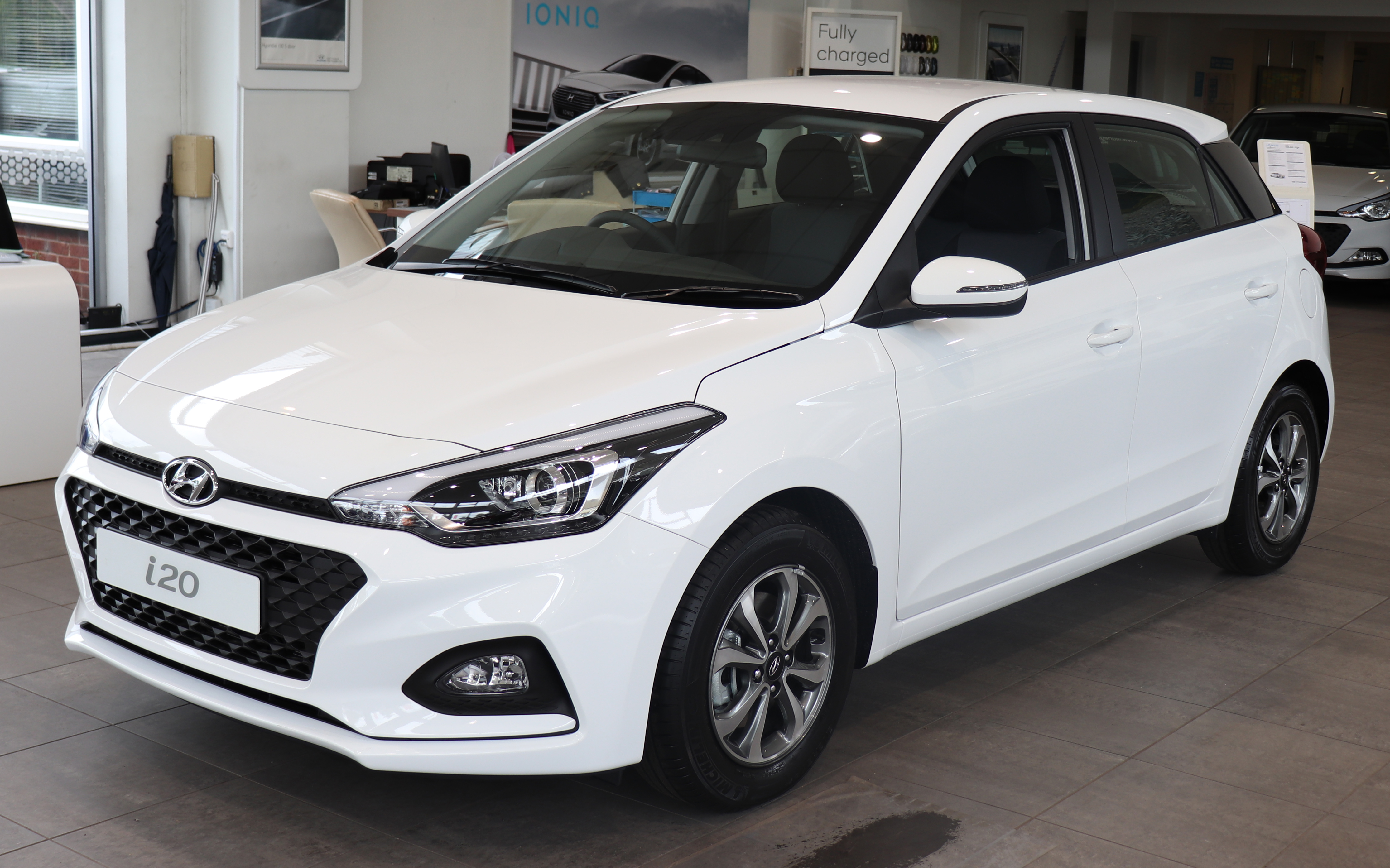 2018 Hyundai i20 facelift Front (Taken 4 days before Official Launch) Taken in Warwick